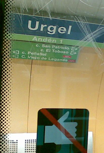 Station of "Urgel" in the Metro (subway/underground) of Madrid